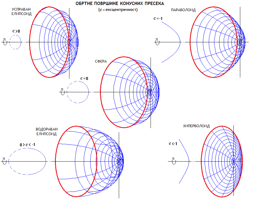 КОНИЧНЕ ПОВРШИНЕ